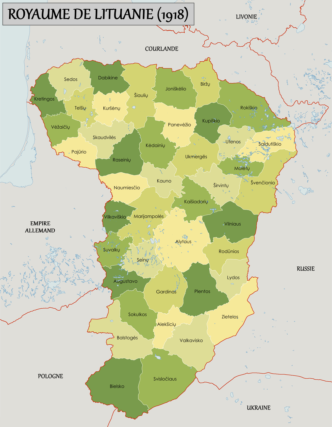 Administrative map of the Kingdom of Lithuania (1918) showing apskritis (counties).